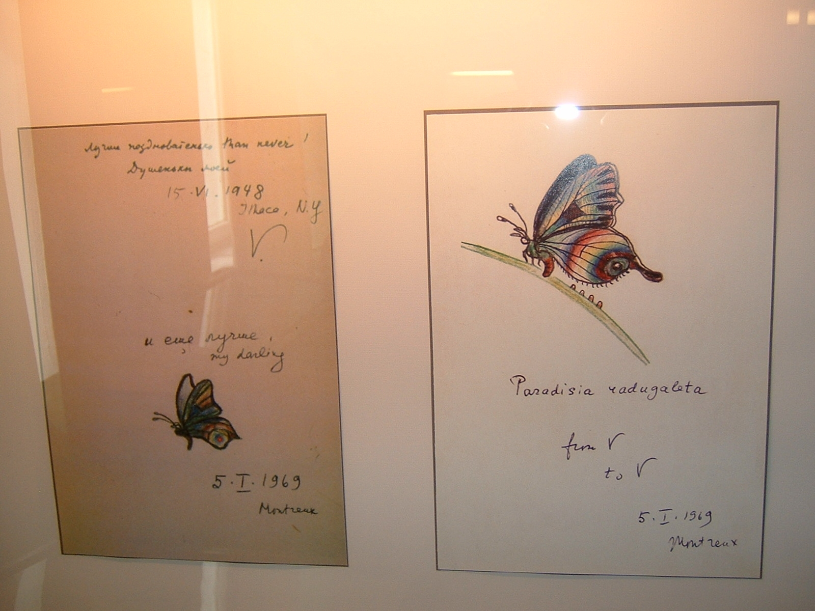 Butterflies drawn by Vladimir Nabokov for his wife Colection of Nabokov House